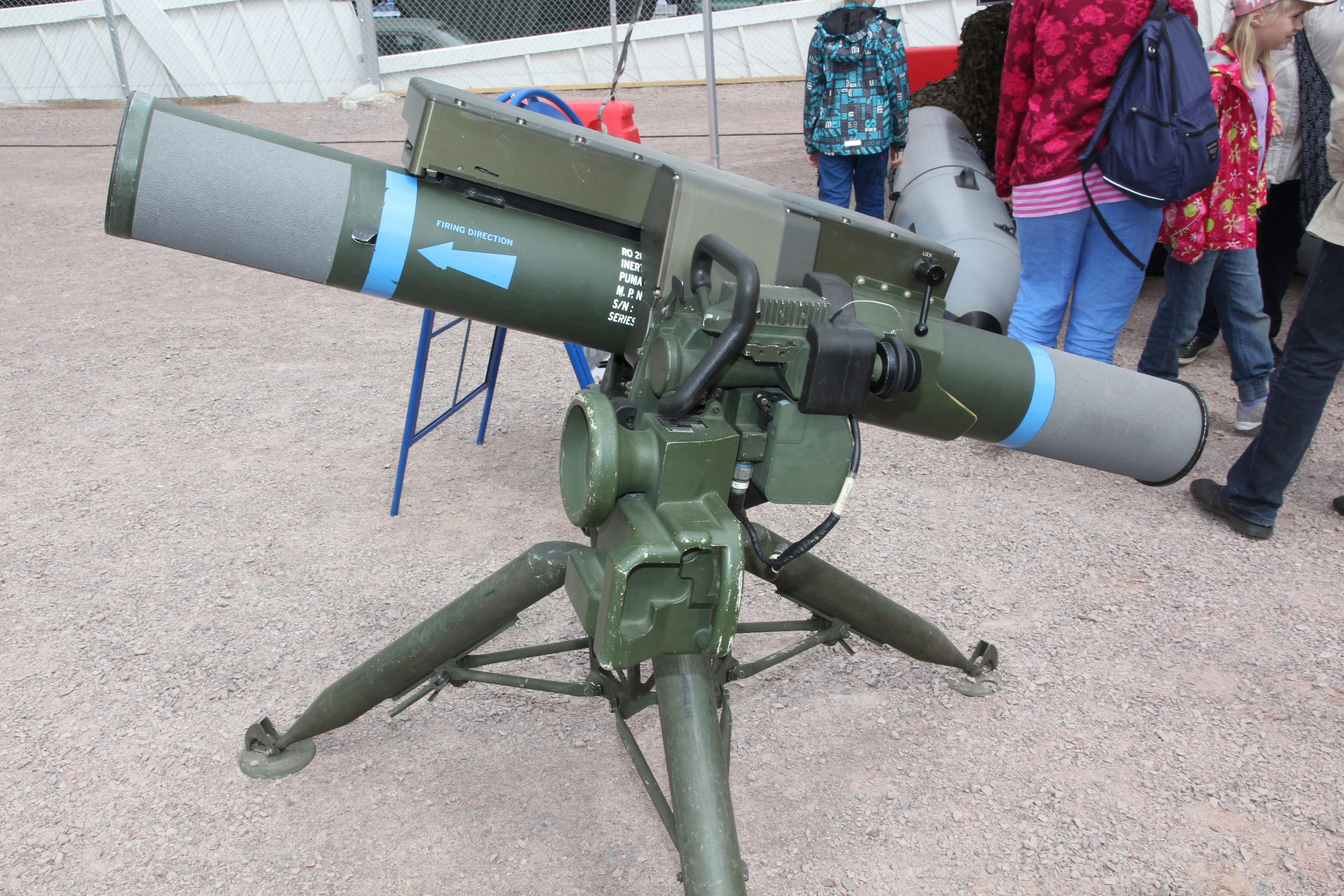 Euro-Spike ER coastal anti-ship missile (rannikko-ohjus 2006) on display during the Finnish Navy 2012 anniversary.